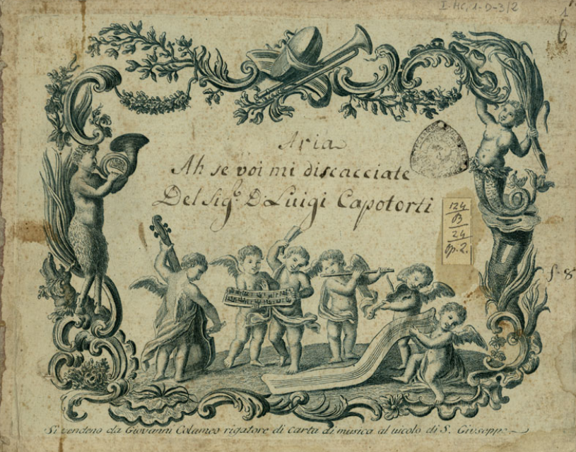 Title page of the score for the aria "Ah se voi mi discacciate" composed by Luigi Capotorti (1767–1842).